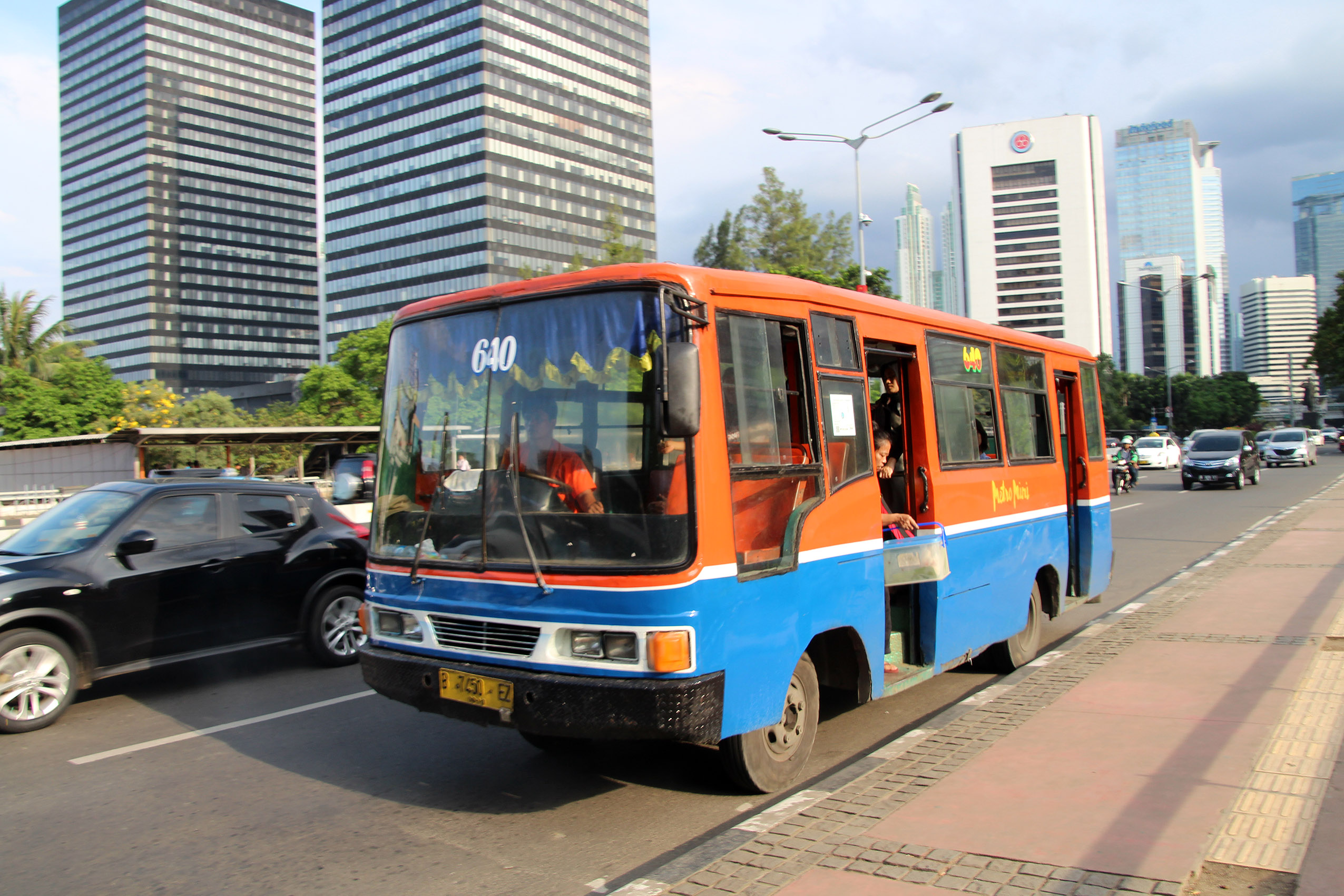 MetroMini 640 bus at Sudirman avenue, Central Jakarta, Indonesia.